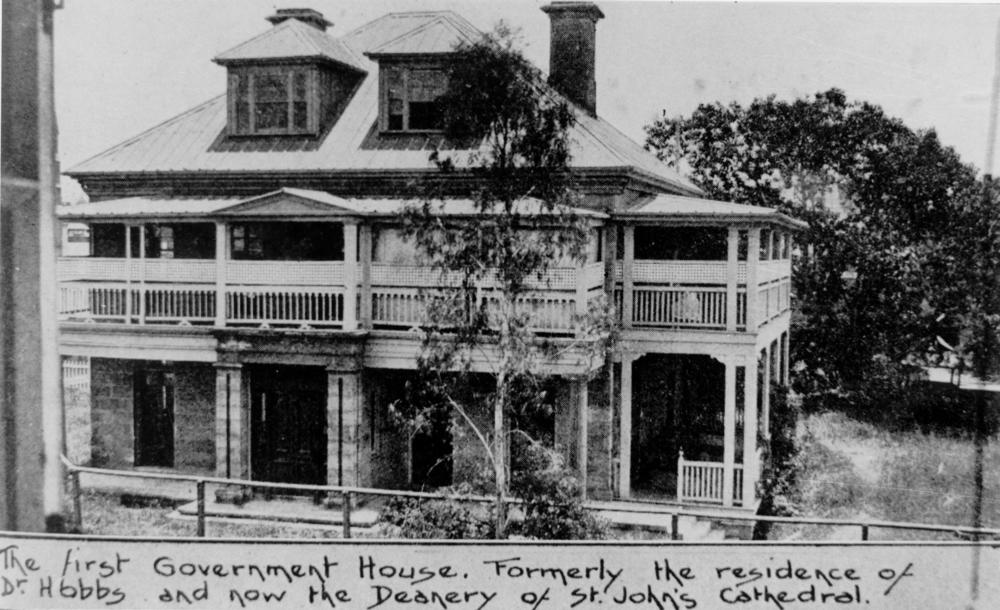 Deanery at St. John's Cathedral, Brisbane, 1921. The Deanery was erected in 1853 by John Petrie for Dr William Hobbs. It was later altered to become Governor Bowen's temporary residence. The Church of England eventually purchased the building and it became the Deanery.